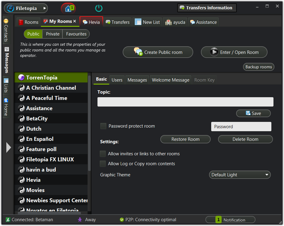 Room management